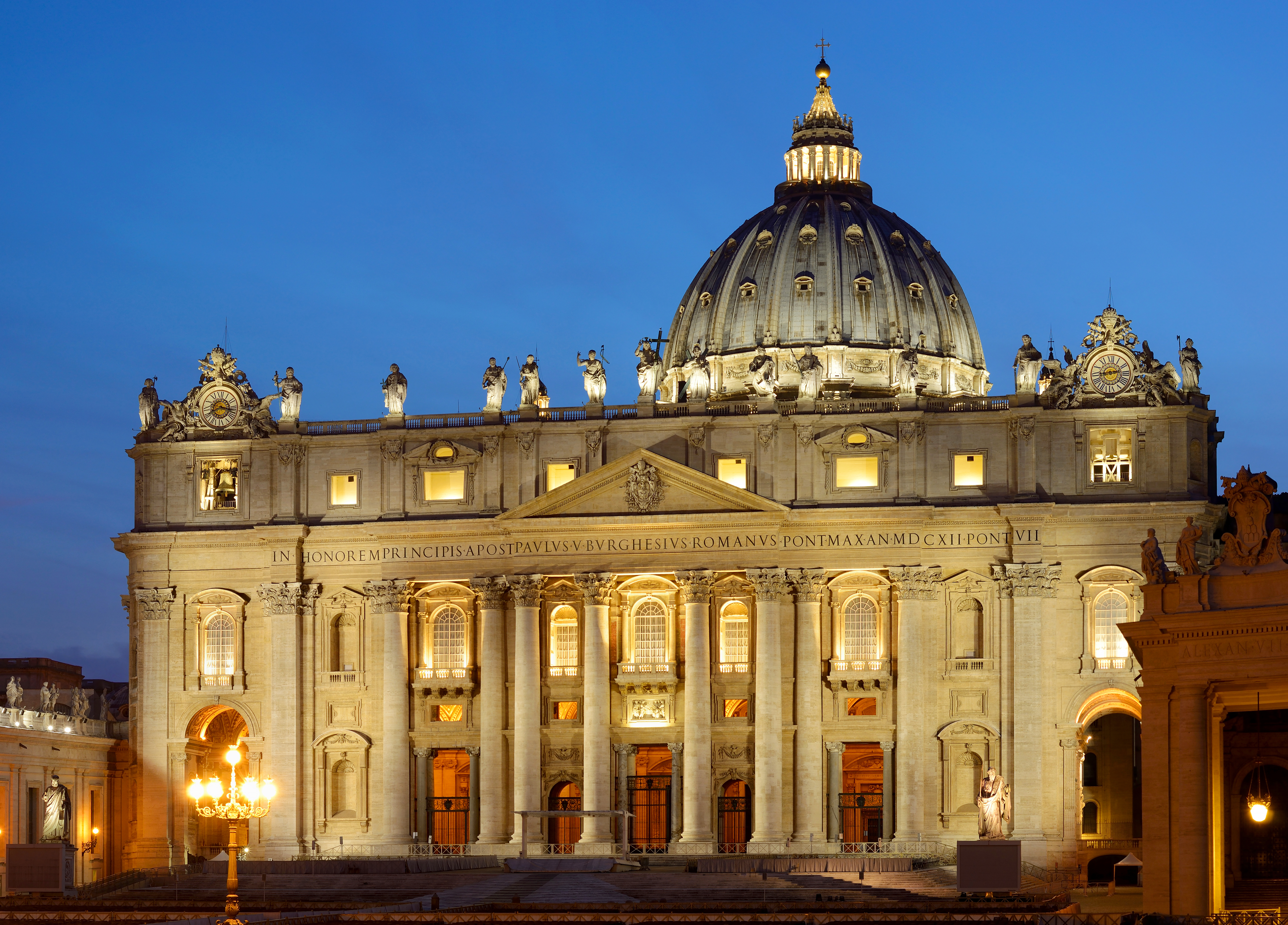 Saint Peter's Basilica at sunset